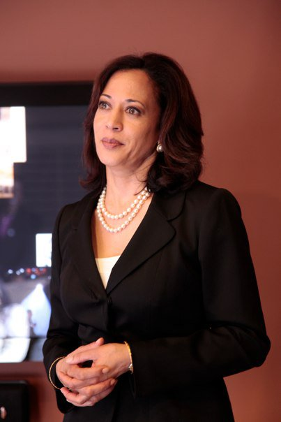 San Francisco District Attorney Kamala Harris speaking at an event